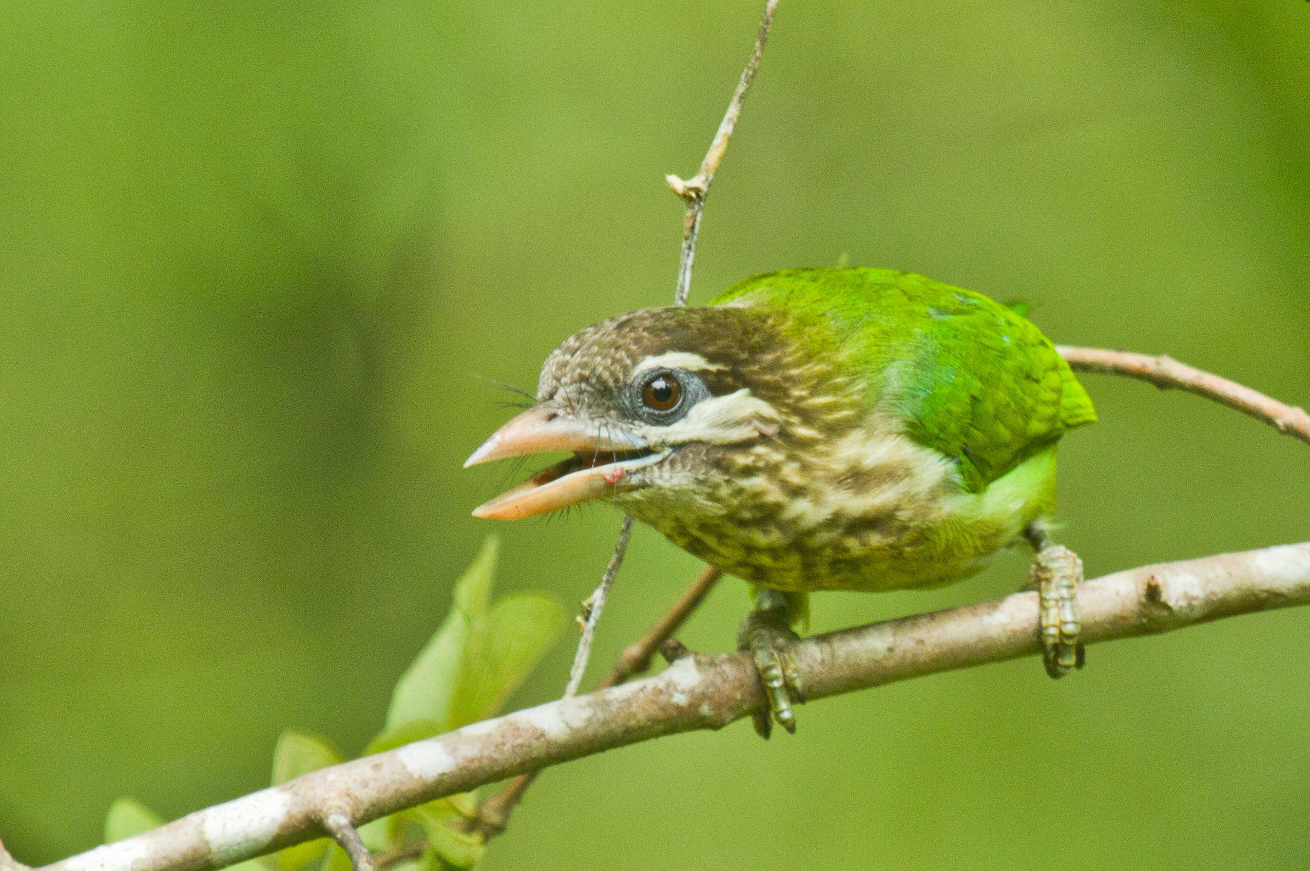 White-cheeked Barbet @ Nilambur